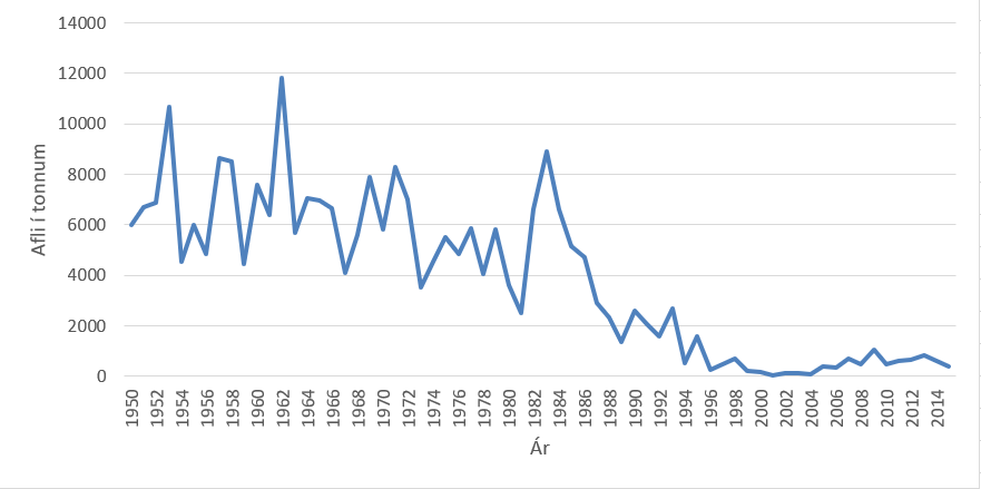 Afli floaskeljar fra 1950-2015